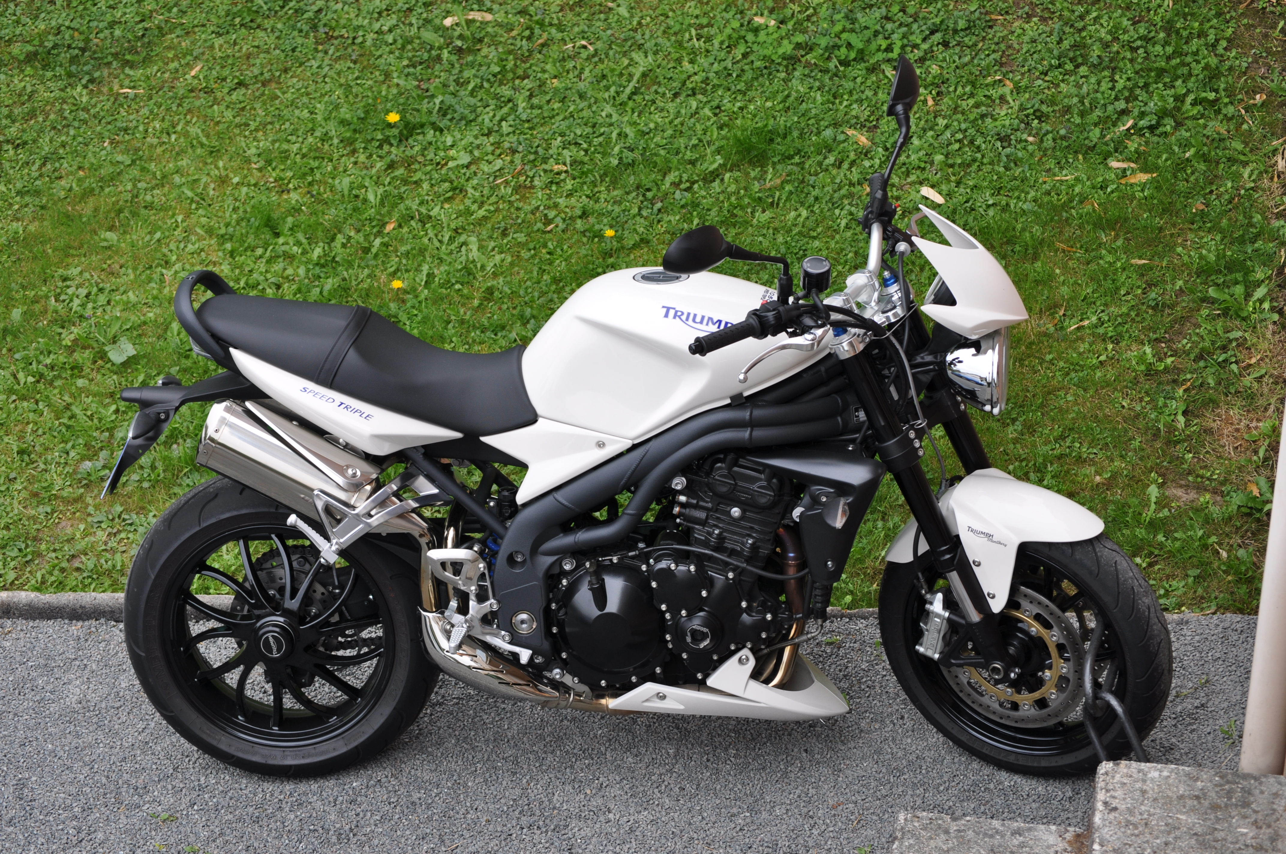 Speed Triple Fusion White 2009